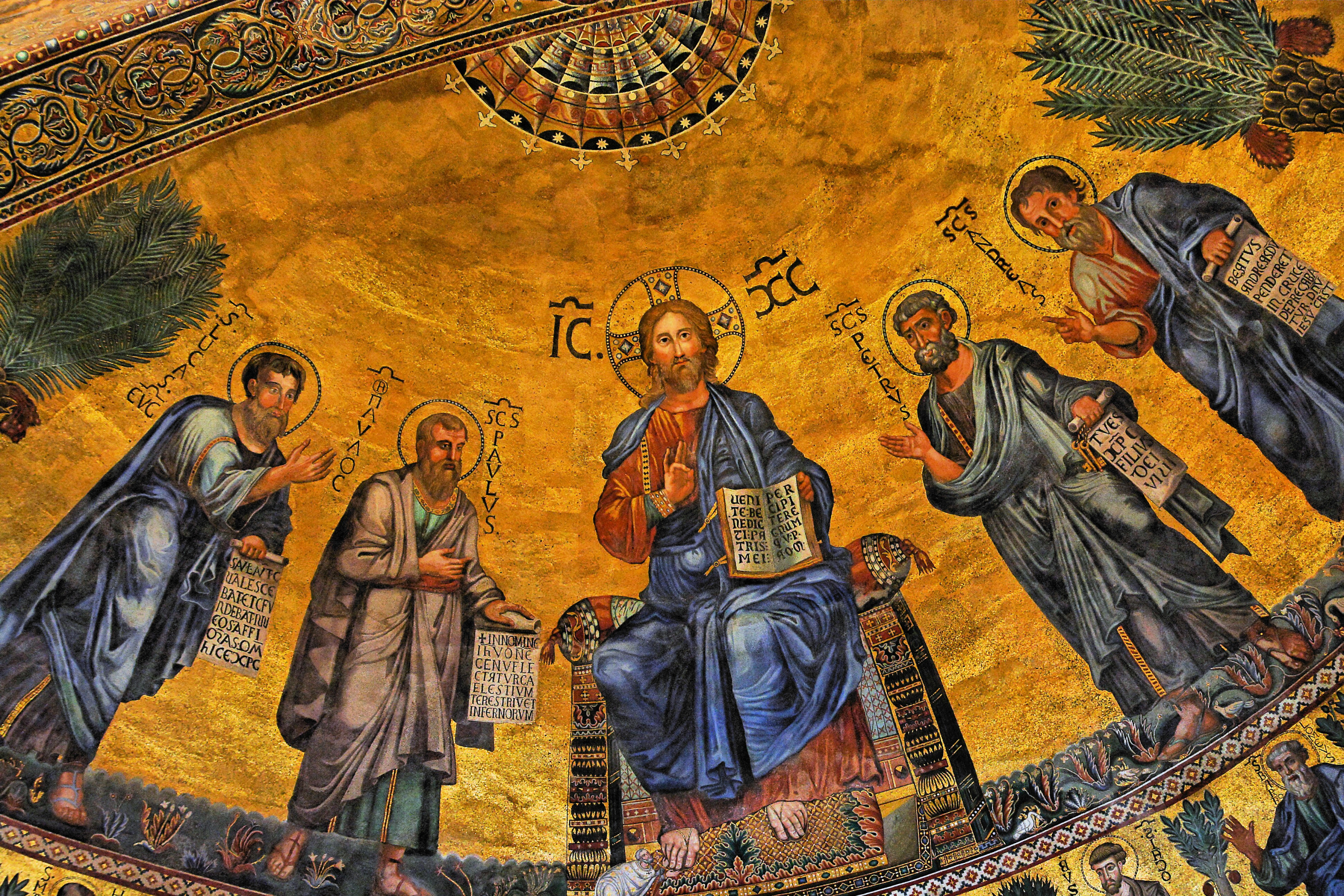 Apse mosaic of the Basilica of Saint Paul Outside the Walls (1220) - Roma - Italy. The apse mosaic was made by Venetian artists. Christ is flanked by the Apostles Peter, Paul, Andrew and Luke. The small figure near Christ's feet is Pope Honorius III, who ordered the mosaic. Pope Honorius III (1148 – 1227), born Cencio Savelli, was Pope from 1216 to 1227.